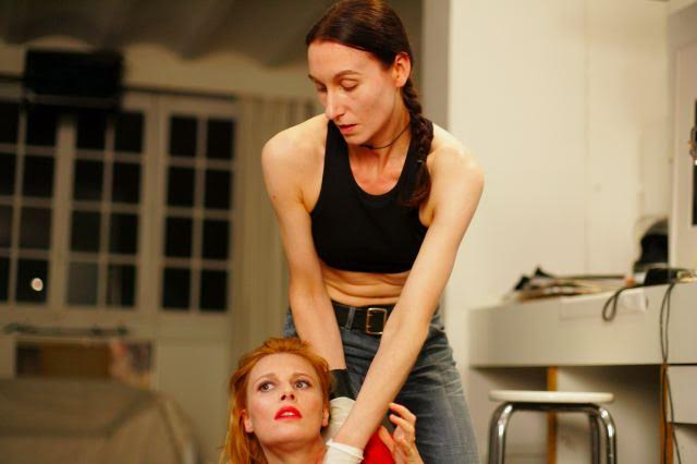 Tell No One Mika'ela Fisher